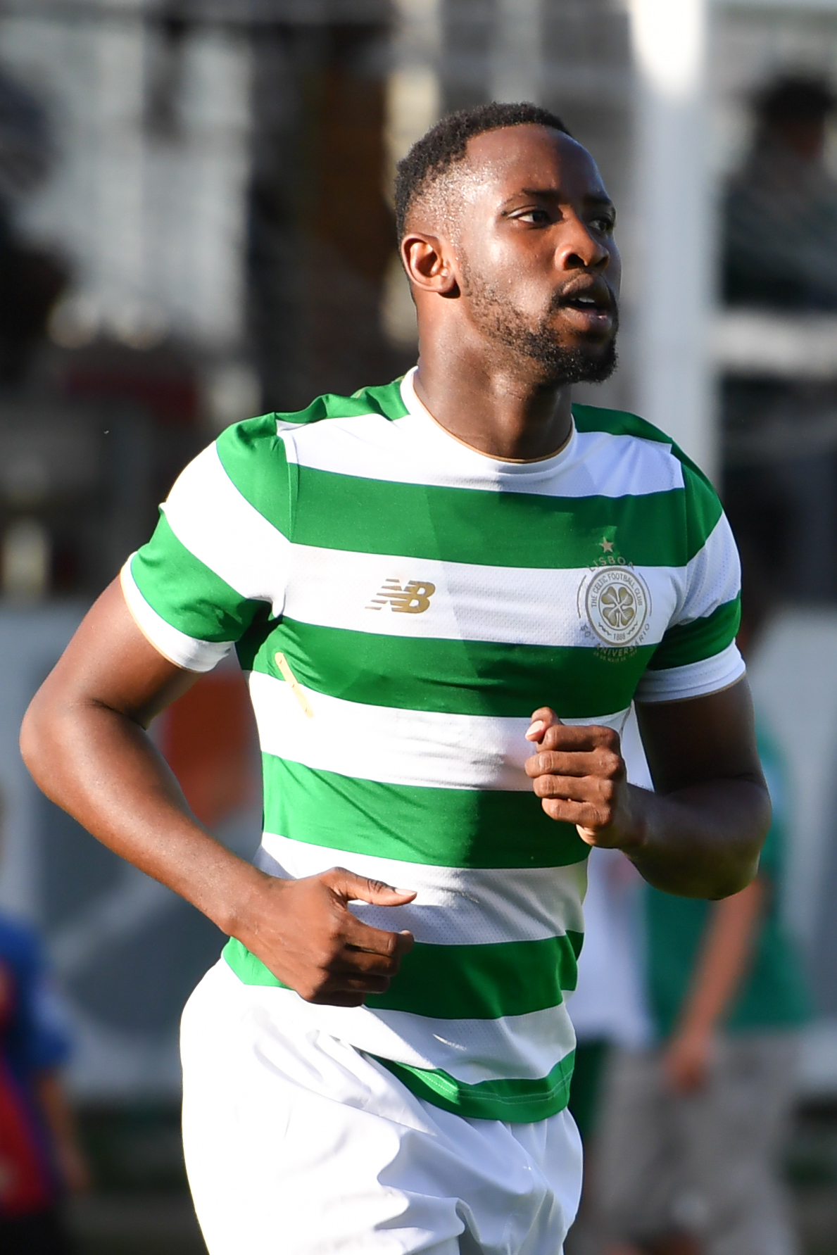 1/7/2017, Amstetten, Austria, sports, soccer, Tipico Fussball Bundesliga - preparation match SK Rapid Wien vs Celtic Glasgow. Image shows Moussa Dembele (Celtic FC).